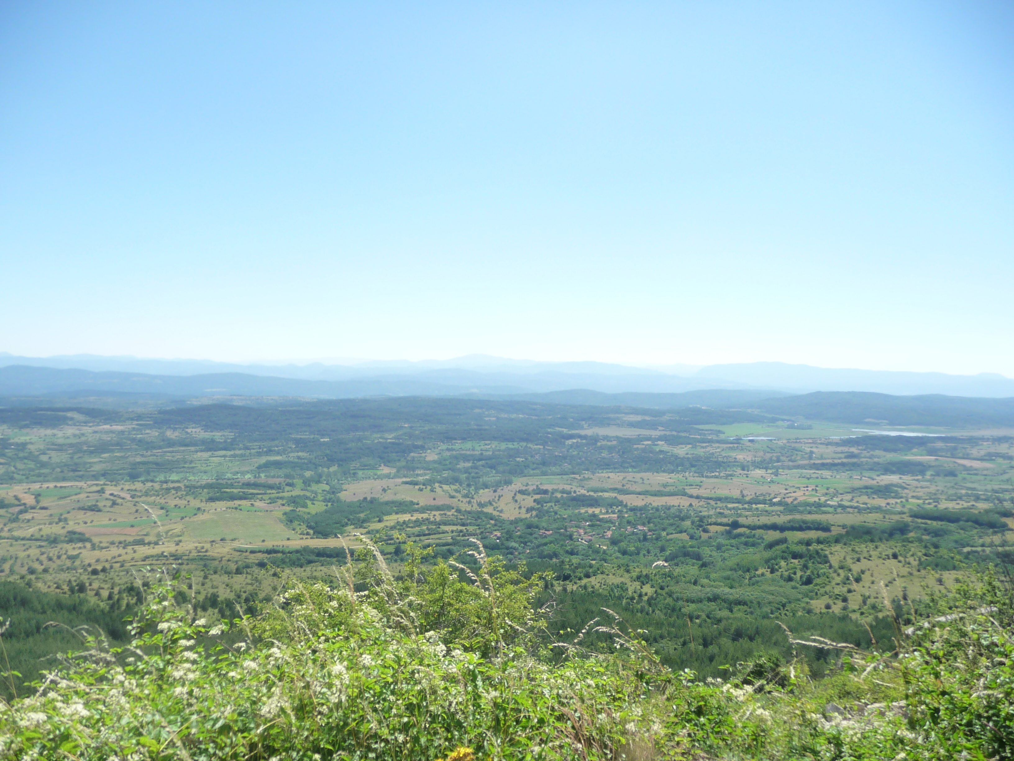 A region of Zabardie - view from Vidlich mountain, northeast from Mointsi village.